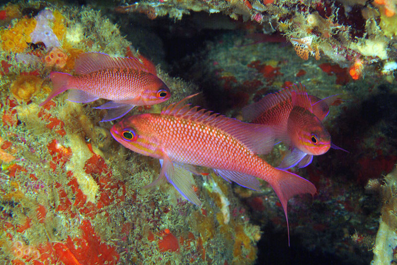 Anthias anthias photographed near Giglio Island (Tuscany, Italy). Depth: 30 m. Photo by Stefano Guerrieri.